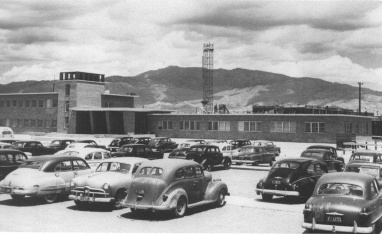 One of Sandia National Laboratories’ first permanent buildings (Building 800) was completed in 1949. In this 1951 photo, Building 802, now attached to Building 800, is rising behind 800. Today, the buildings mostly house Sandia’s primary business and administrative offices.